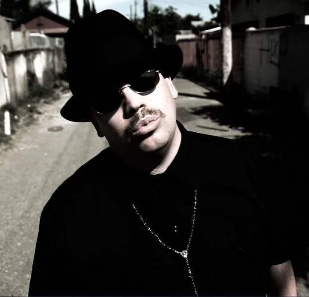 Serio in 2011 at his music video shoot for "I'll Never Forget"